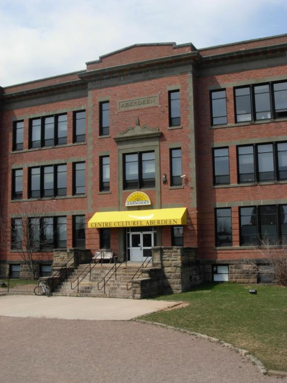 Aberdeen Cultural Center, taken by myself, April 22, 2008